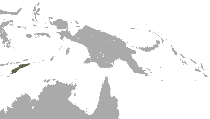 Timor Shrew (Crocidura tenuis) range